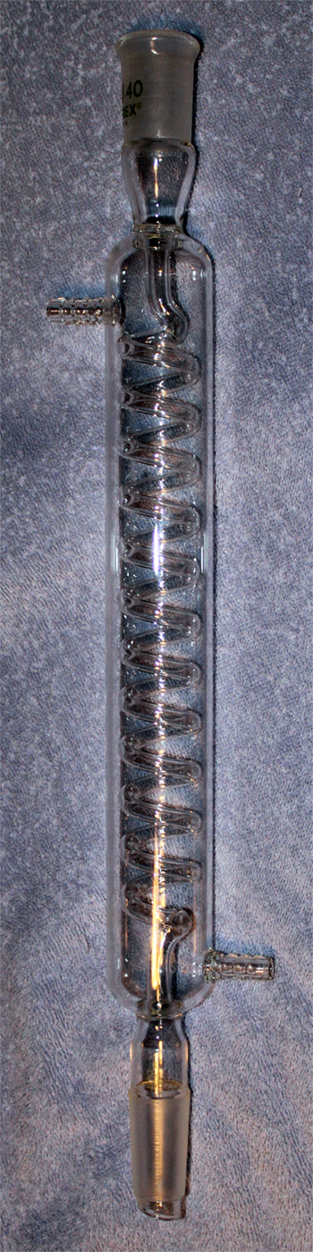 A Graham condenser; 24/40 ground glass joints